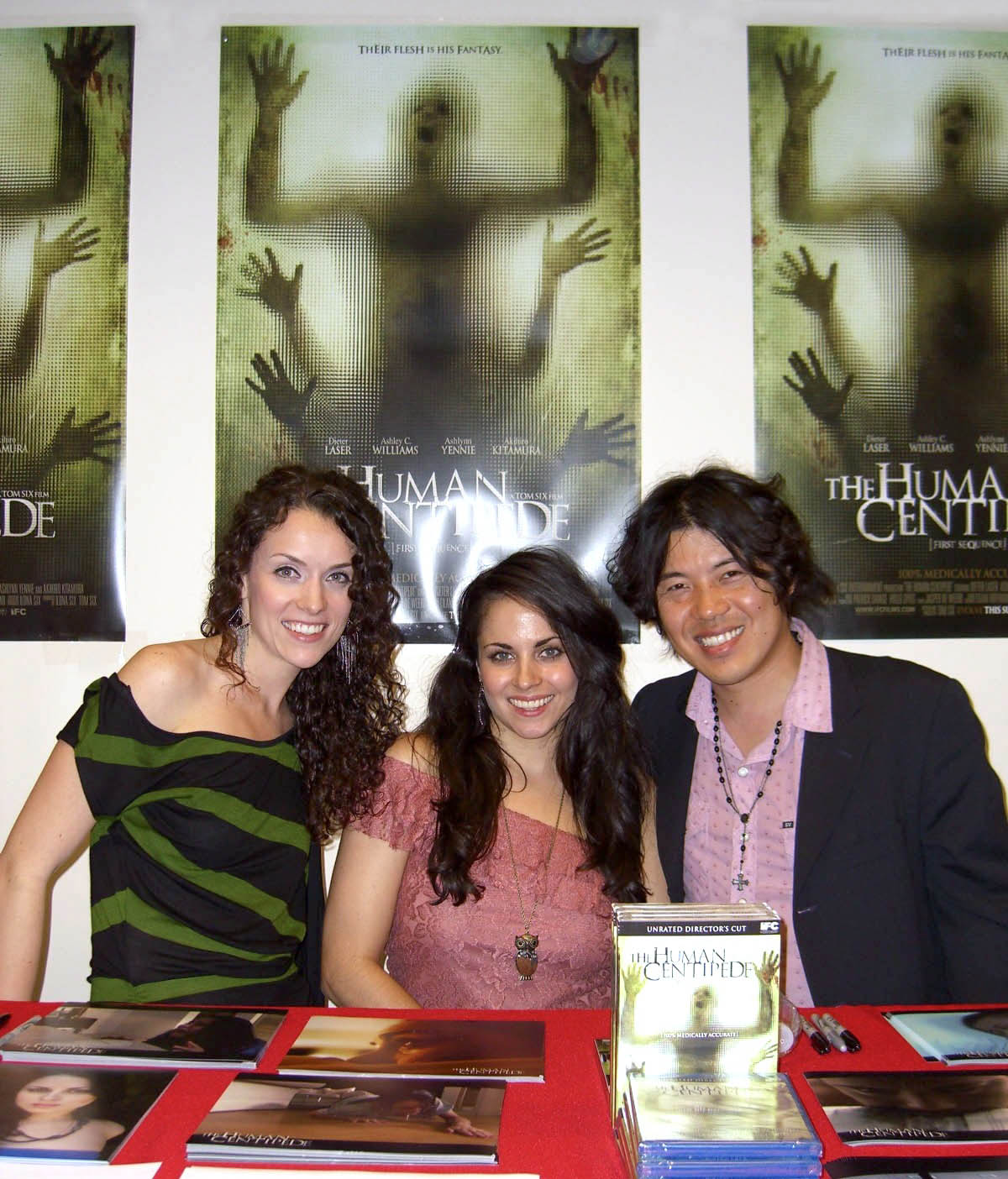 The Human Centipede stars Ashlynn Yennie, Ashley C. Williams and Akihiro Kitamura at the Big Apple Convention in Manhattan, October 1, 2010. This photo was created by Luigi Novi. It is not in the public domain, and use of this file outside of the licensing terms is a copyright violation.